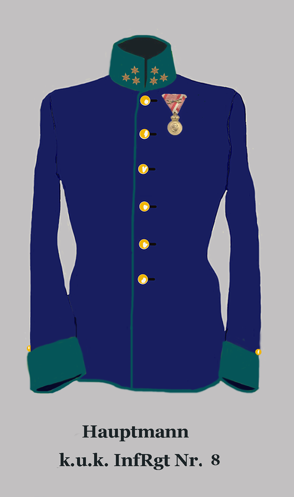 Captain of the Austria-Hungarian Army (German 8th Infantry Regiment) Coat with grass-green collar and yellow buttons